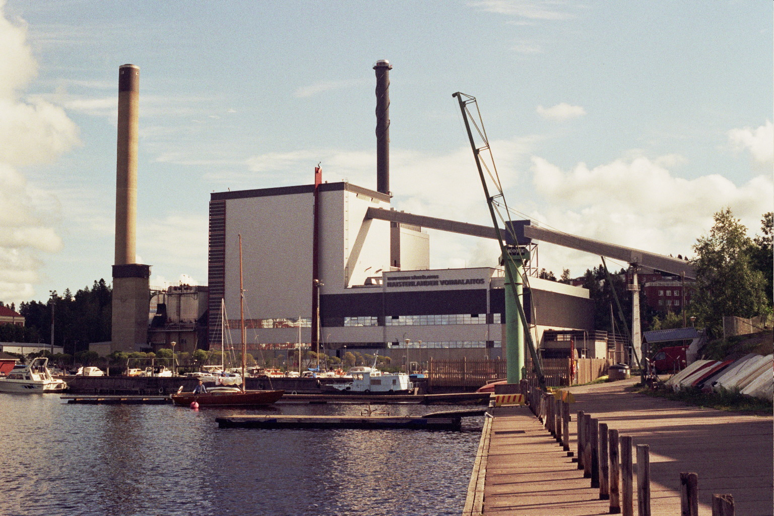 Naistenlahti power plant in Tampere, Finland.